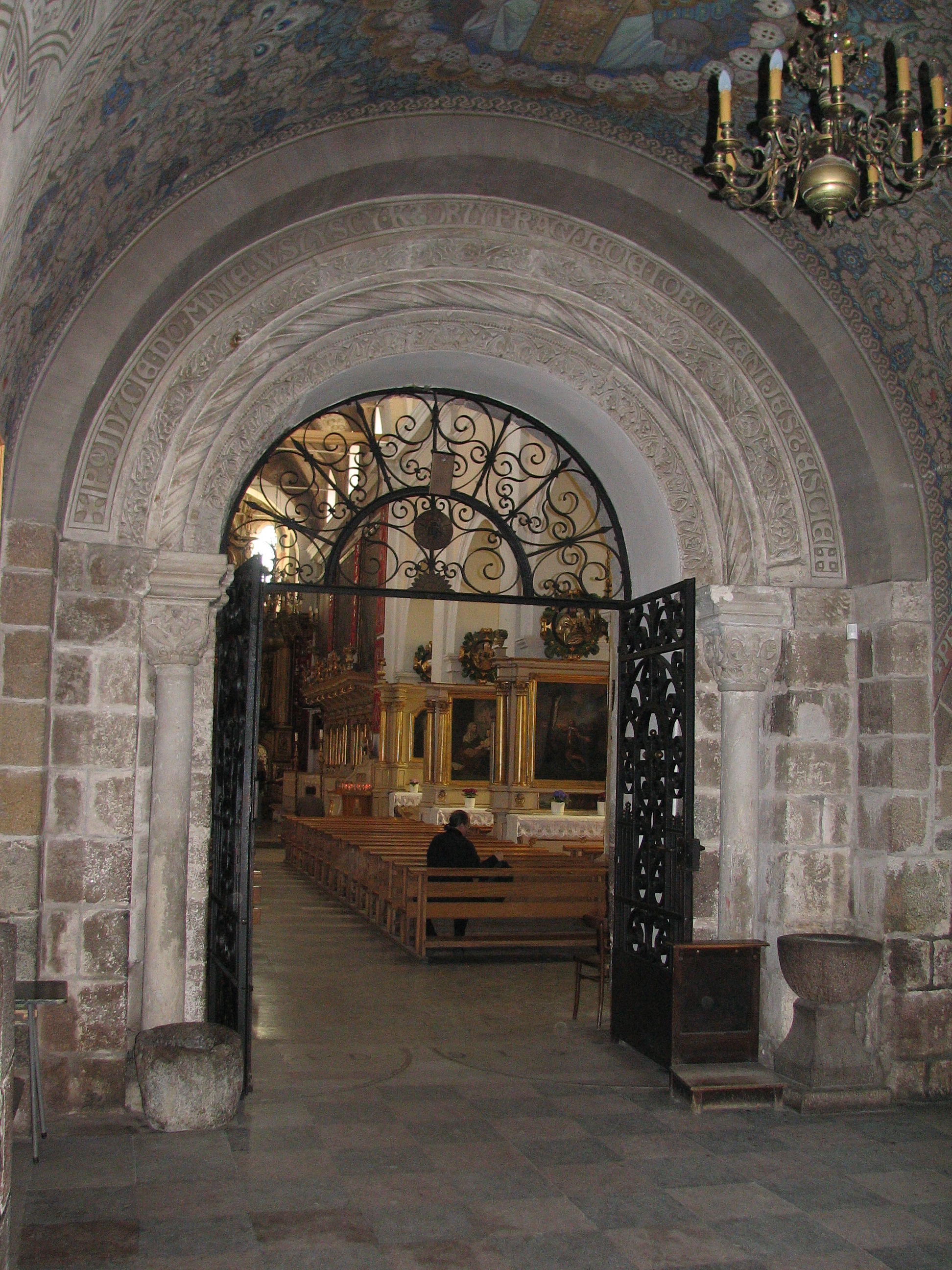 Romanesque church in Czerwińsk nad Wisłą.